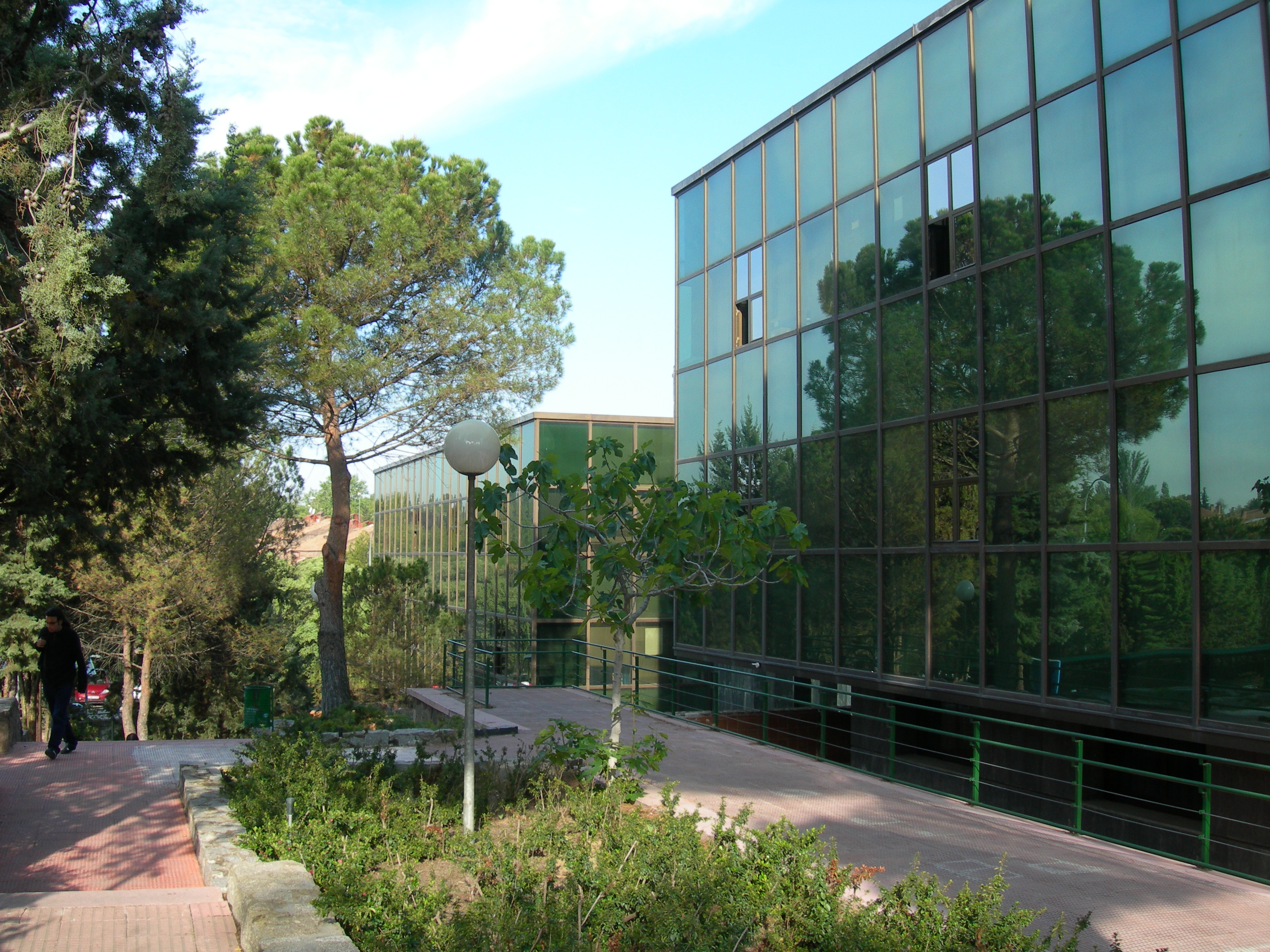 Technical University of Madrid (UPM), Spain. Computer Science Faculty. "Block 2" (left) and "Block 3" (right)